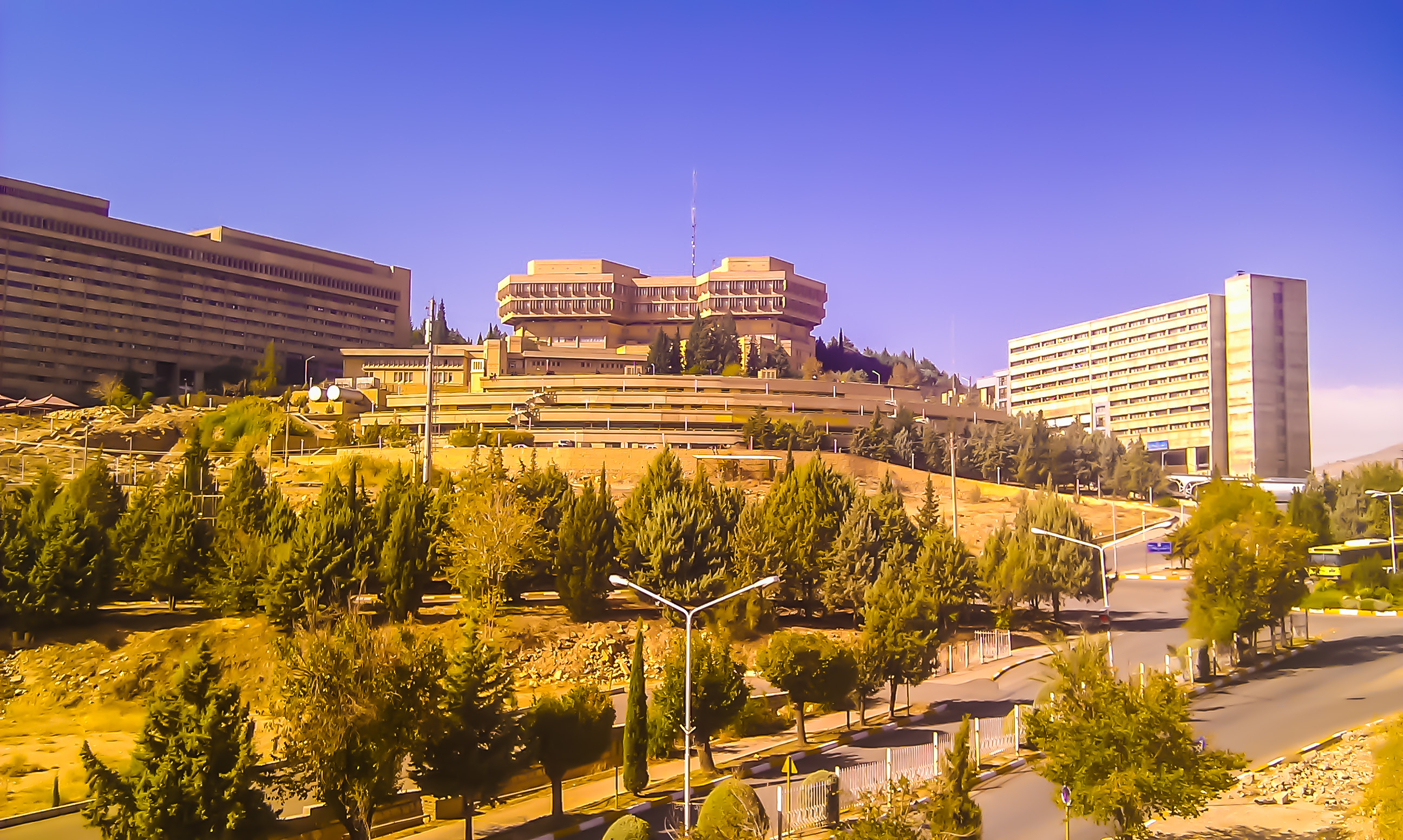 Shiraz University